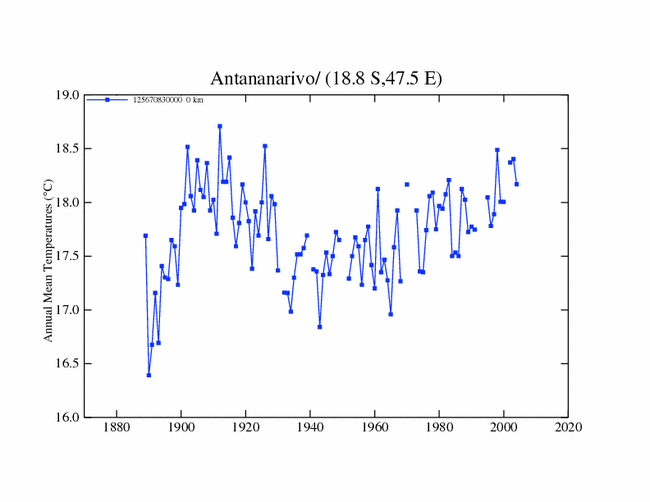 Graph of 1889 2005 air average temperaturas at capital city of Antananarivo, Madagascar